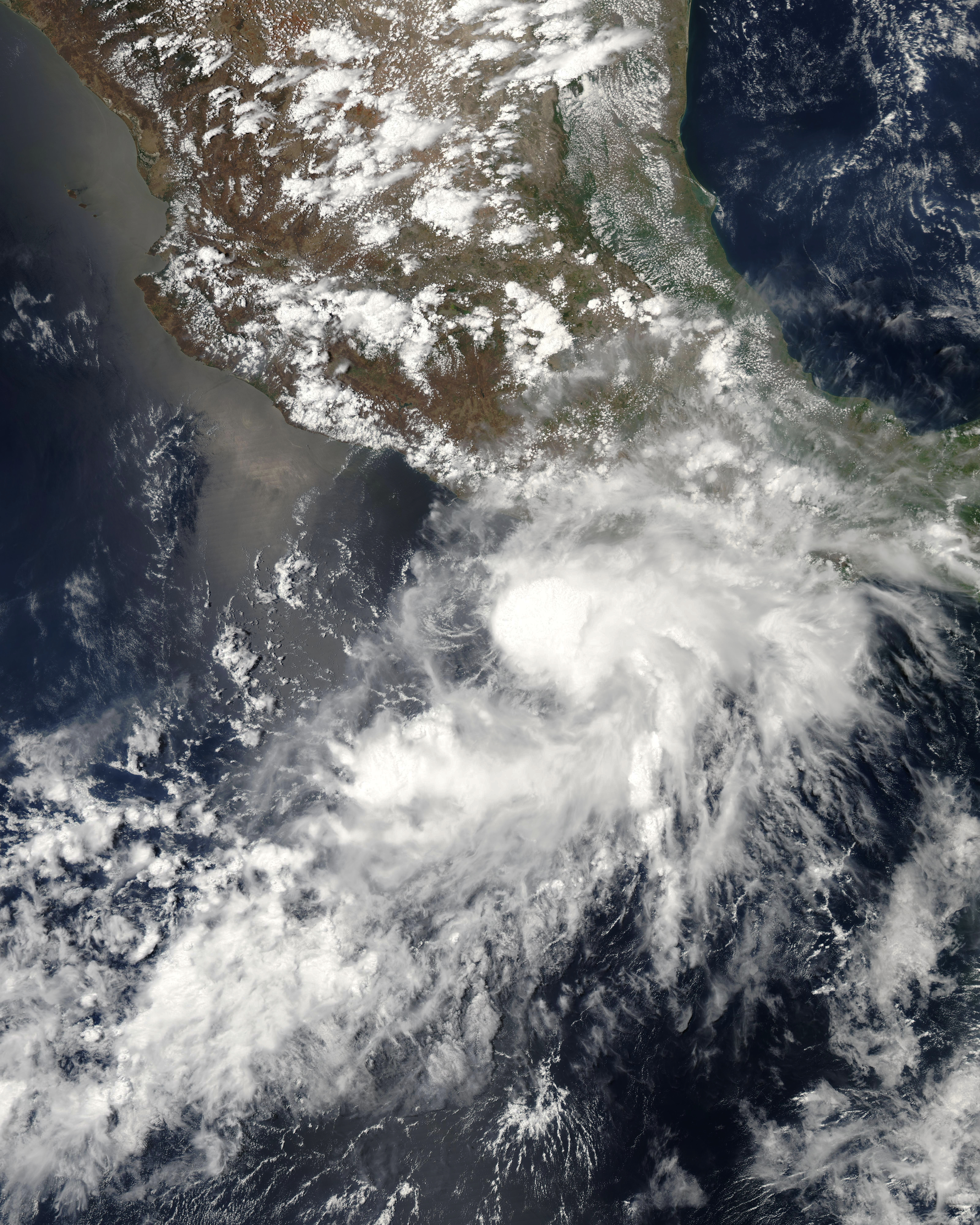 Tropical Storm Aletta formed off the Pacific coast of southern Mexico on May 27, 2006, as a tropical depression. Over the next day, it gained a little strength until it reached tropical storm status, with sustained winds of around 62 kilometers per hour (39 miles per hour). Aletta never built much beyond this strength before slipping back below storm strength to be a tropical depression on May 30. Aletta stayed offshore, which often happens with cyclones that form in the Eastern Pacific. However, Aletta did get to grab the tiara of the first named storm in the Eastern Pacific of the 2006 hurricane season. This photo-like image was acquired by the Moderate Resolution Imaging Spectroradiometer (MODIS) on NASA’s Aqua satellite on May 27, 2006, at 3:05 p.m. local time (20:05 UTC). The tropical storm did have a discernable spiral structure in this satellite image, but other evidence of a well-developed storm system, such as an eye structure and tightly wound spiral arms, are absent. Sustained winds in the storm system were estimated to be around 65 kilometers per hour (40 miles per hour) around the time the image was captured, according to the University of Hawaii’s Tropical Storm Information Center.